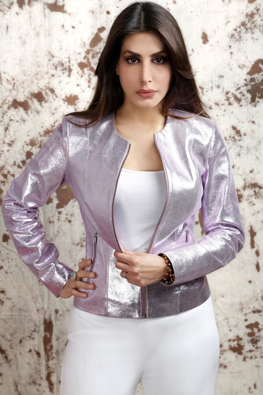 photo of Priya Sachdev Kapur captured by me